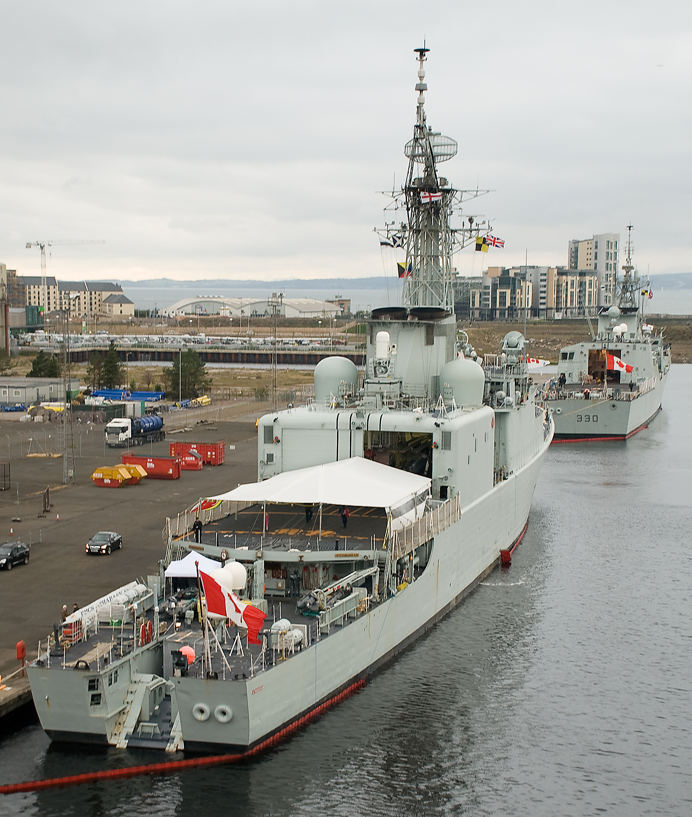 HMCS Athabaskan and HMCS Halifax. Motto: We fight as One